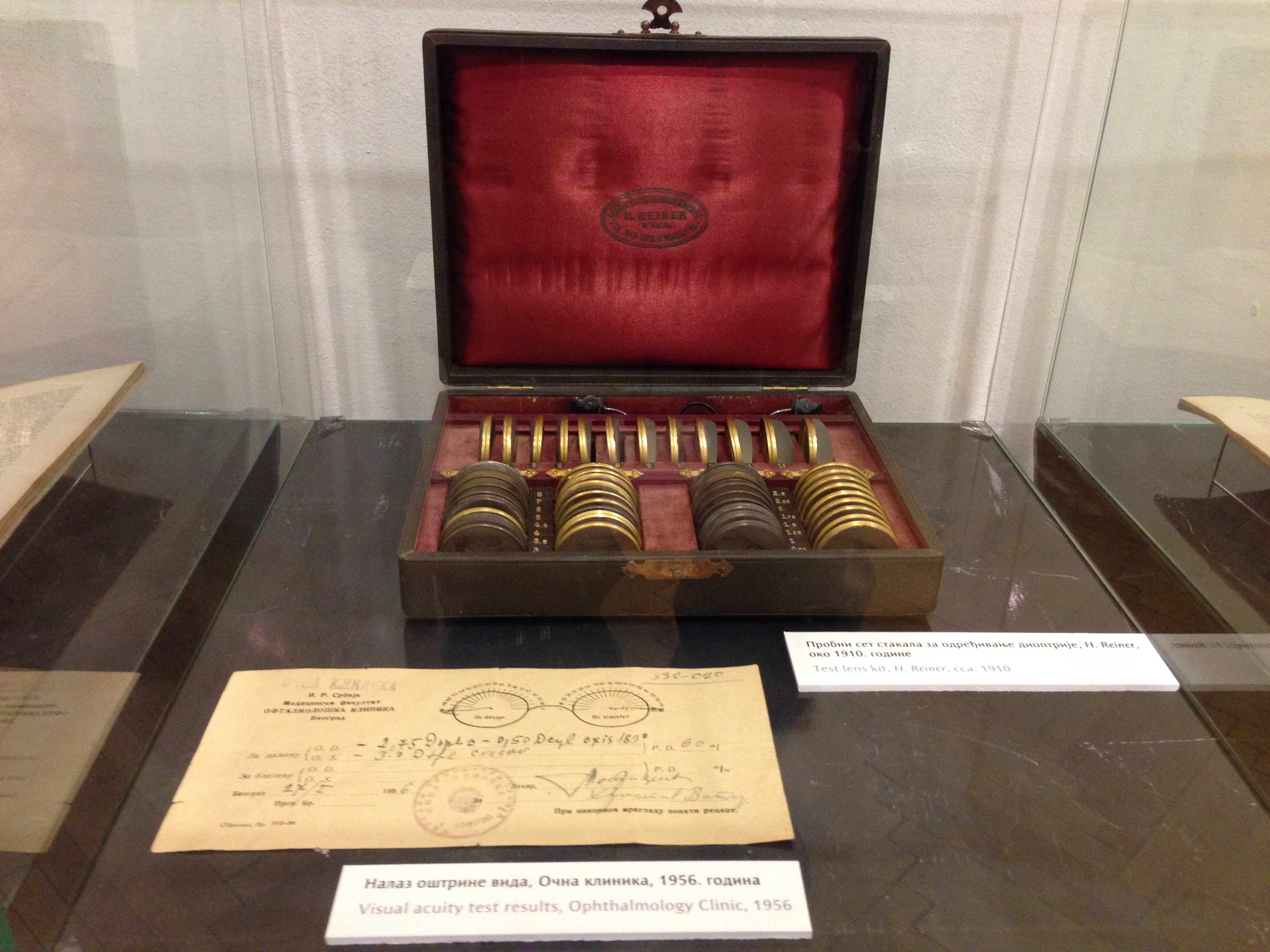 Test lens kit, H Reiner cca 1910. Srpski (latinica): Probni set stakala za određivanje dijoptrije, H Reiner oko 1910.